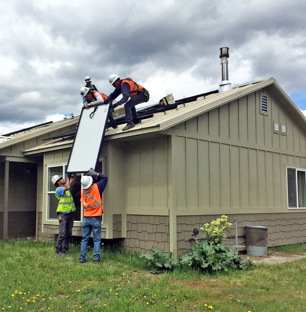 The installation team secures solar panels to a roof as part of the Spokane Indian Tribe’s DOE co-funded Children of the Sun Solar Initiative. Photo from Tweedie Doe, DOE